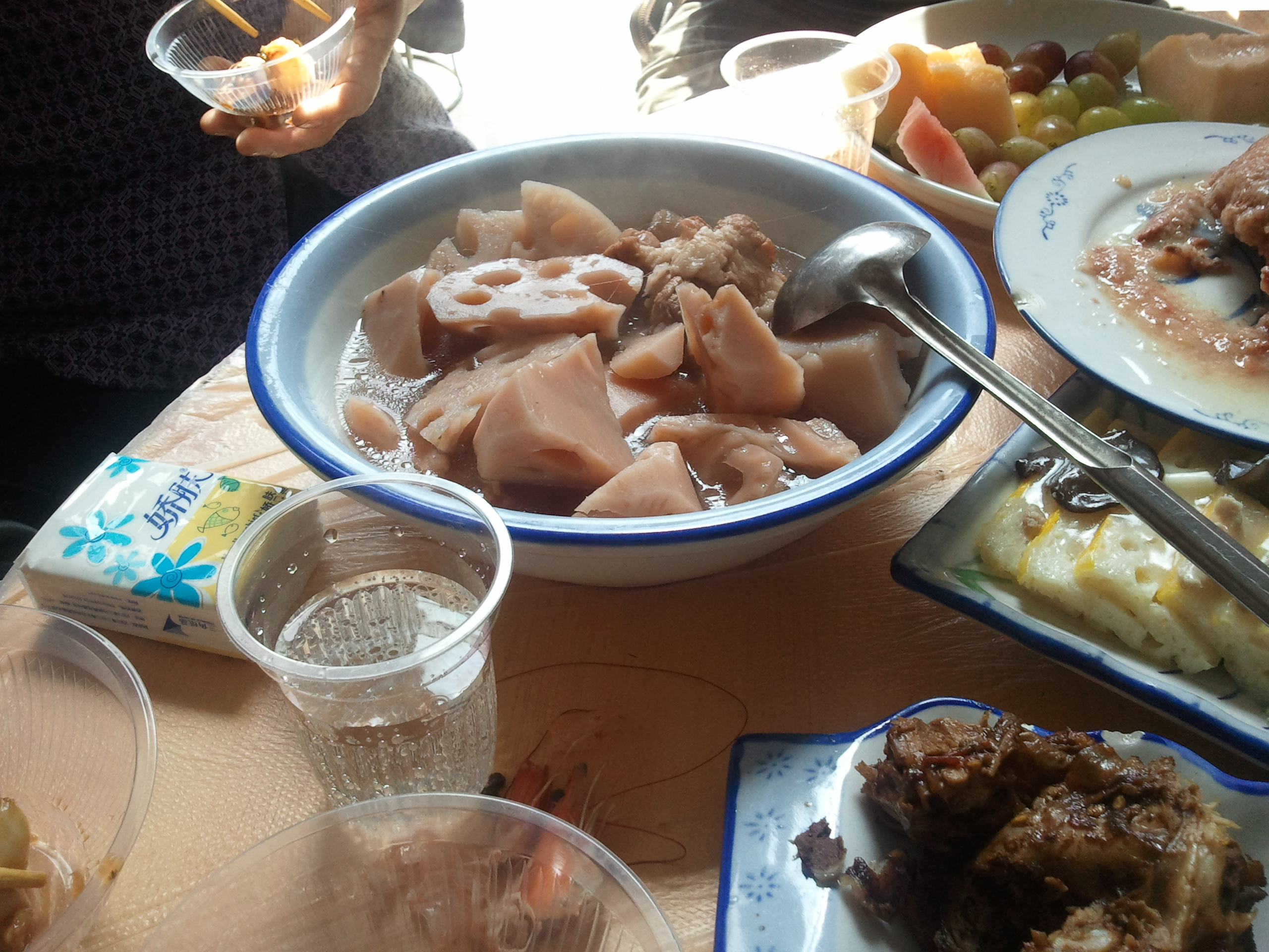 Lotus root soup at Jingzhou, Hubei province (China) style, cut in big pieces